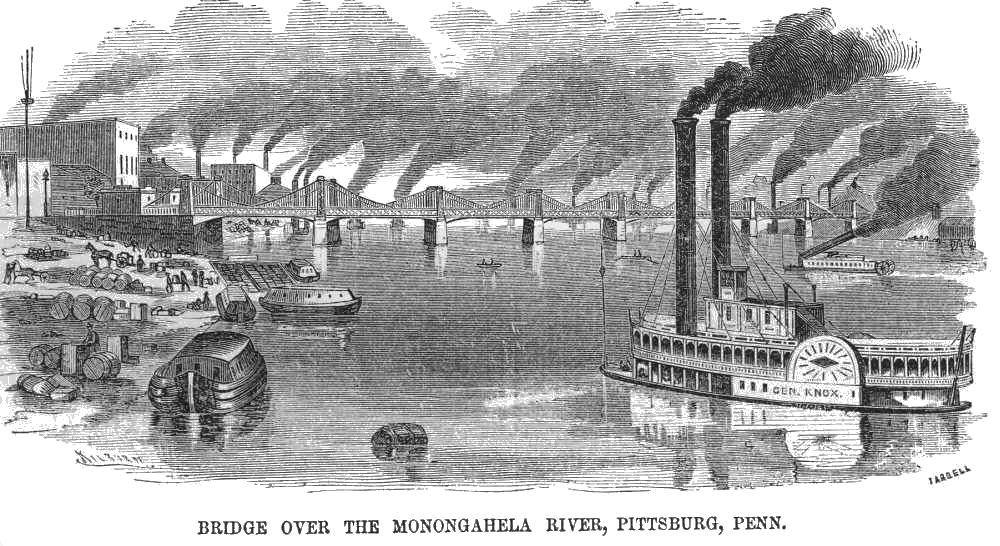 A river scene: Monongahela River, Pittsburgh, Pennsyvania. Shows steam ship "General Knox", wharf operations, a steel superstructure bridge, and numerous smoke stacks.